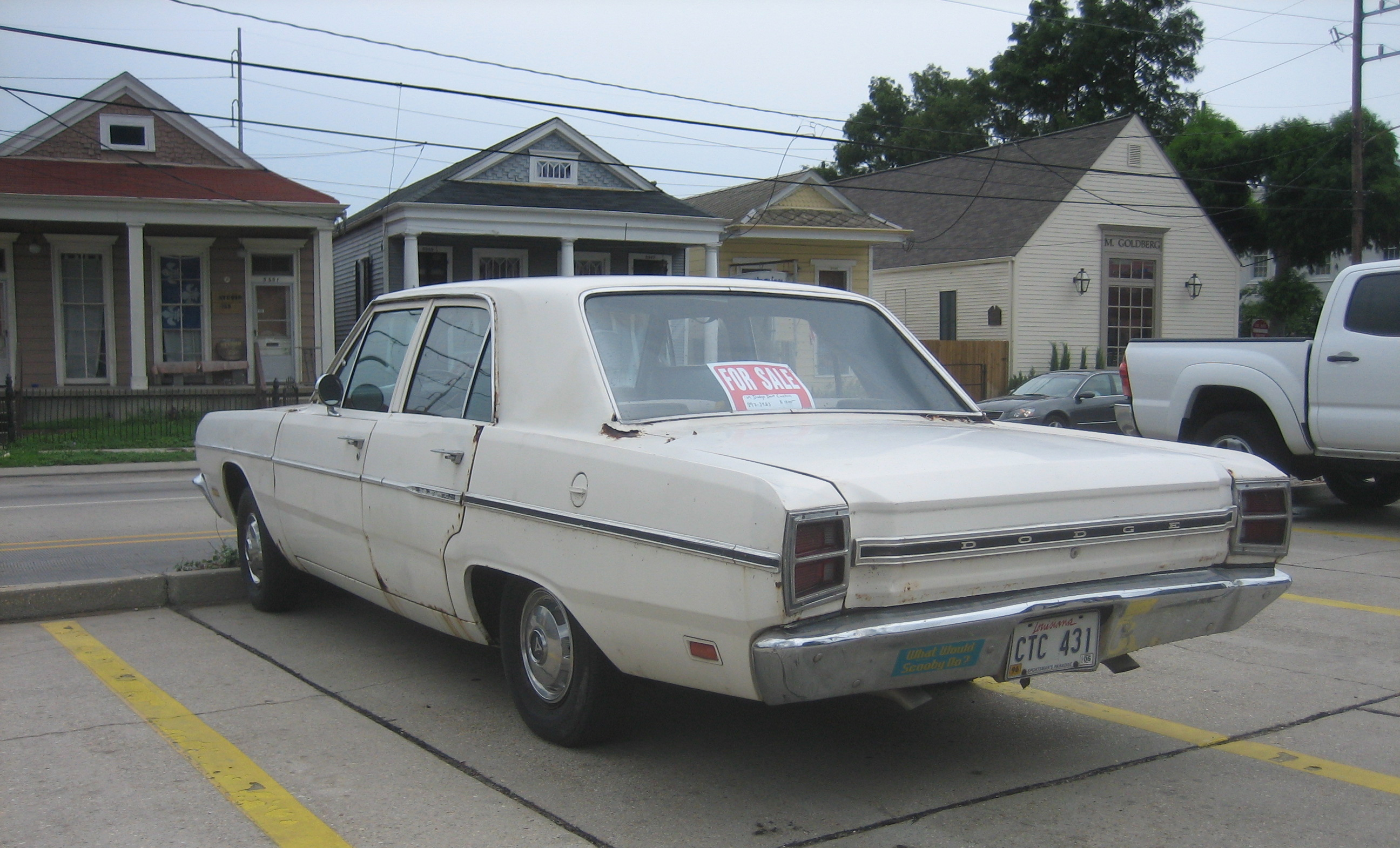 1969 Dodge Dart seen parked in Uptown New Orleans Photo by Infrogmation